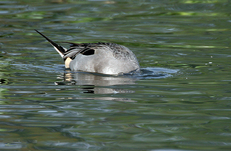 Northern Pintail (Anas acuta) in Kolkata, West Bengal, India.